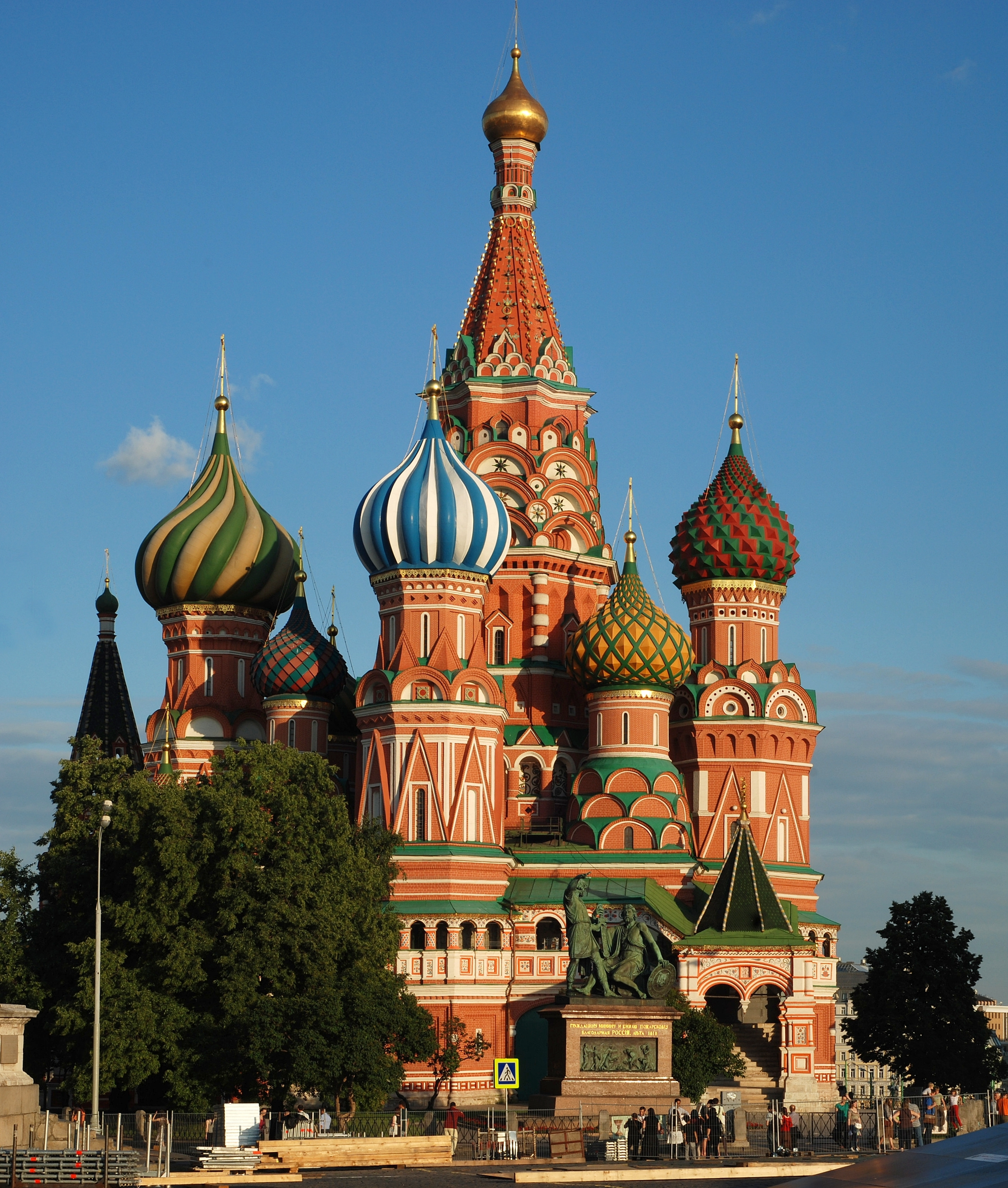 Saint Basil's Cathedral, Moscow. View from northwest